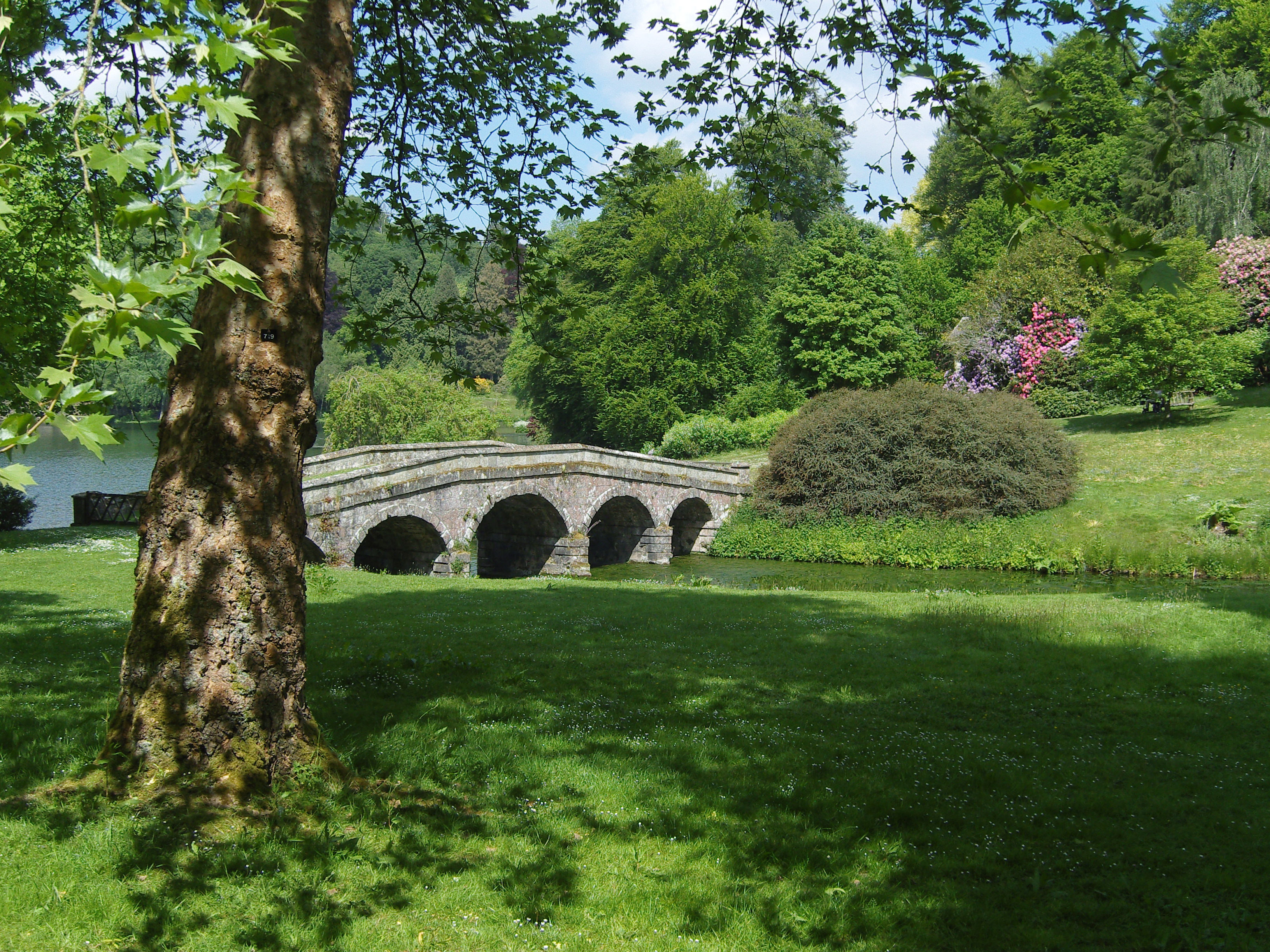 Stone arch bridge in Stourhead